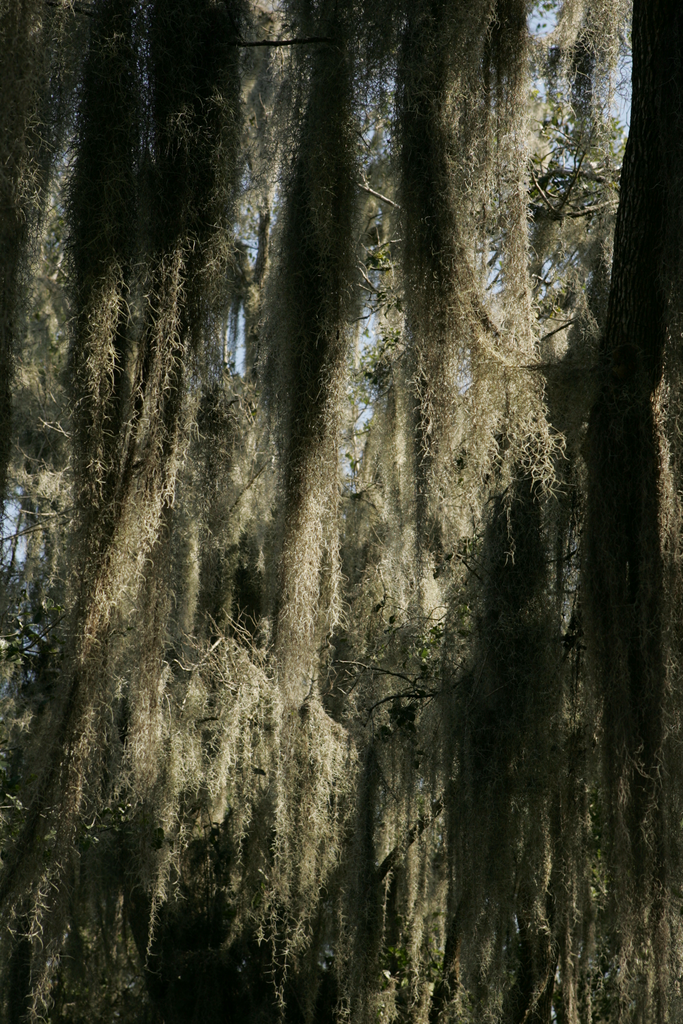 Spanish moss - Santa Ana National Wildlife Refuge